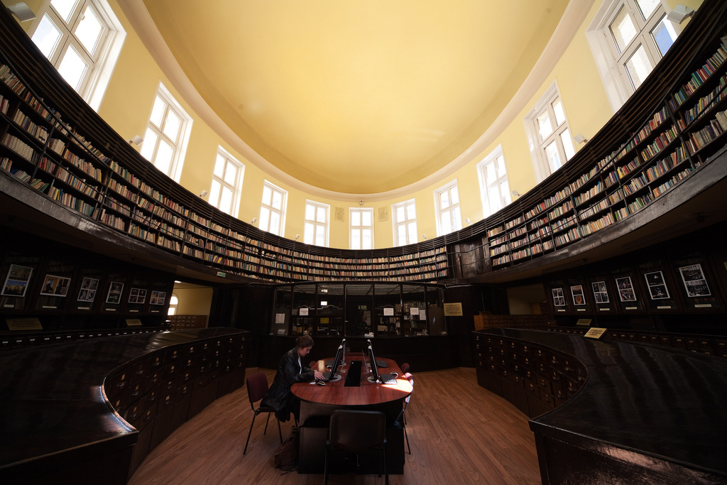 The library of Sofia University. Designed by Konstantin Jovanović (1849-1923). Bulgarian law does not allow freedom of panorama, and only buildings whose author died before 1942 can be uploaded freely. Image by Anastas Tarpanov at